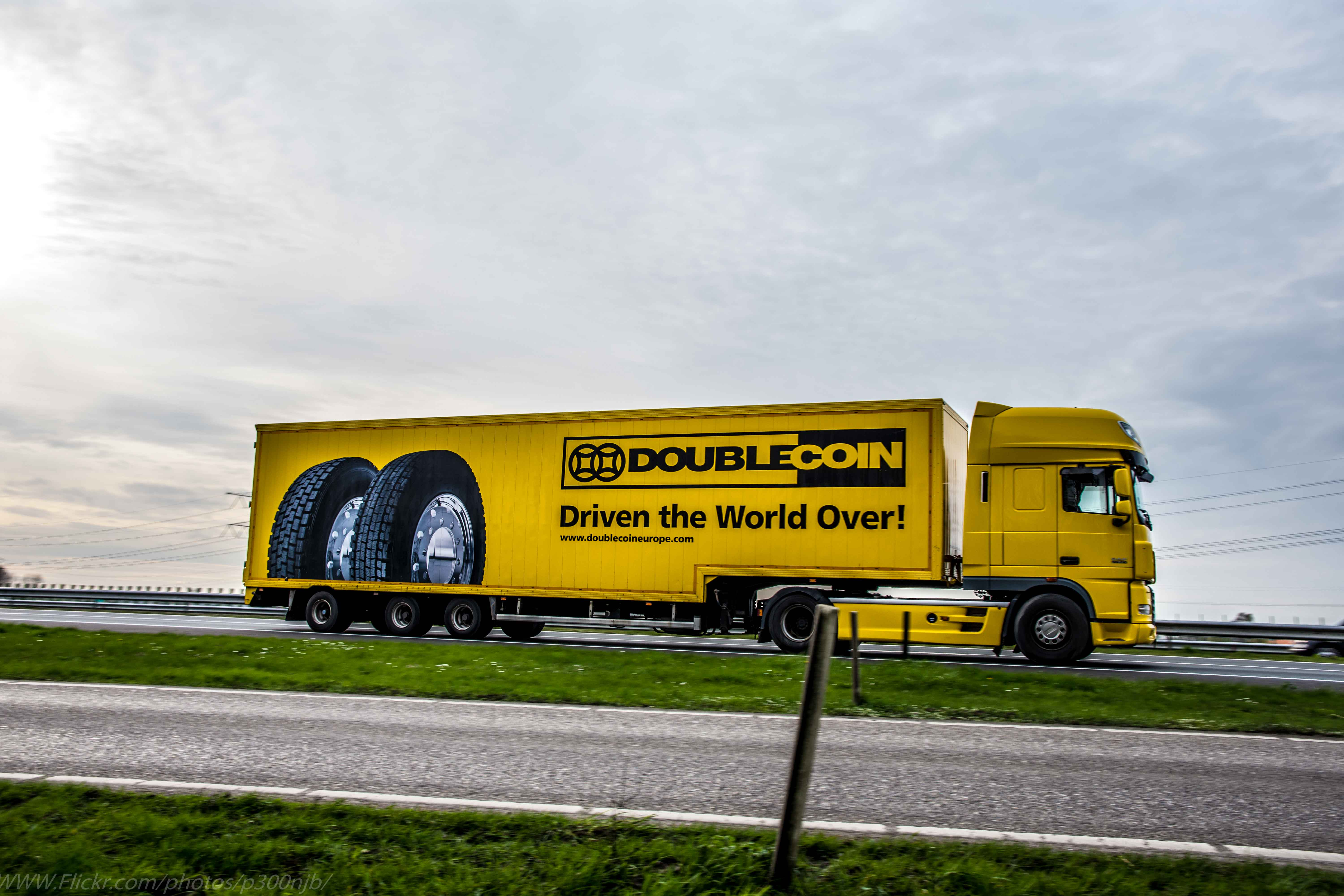 2017-03-29 Truck Spotting @ The Bp Garage on the A17 A59 Direction Moerdijk-Holland - Double Coin